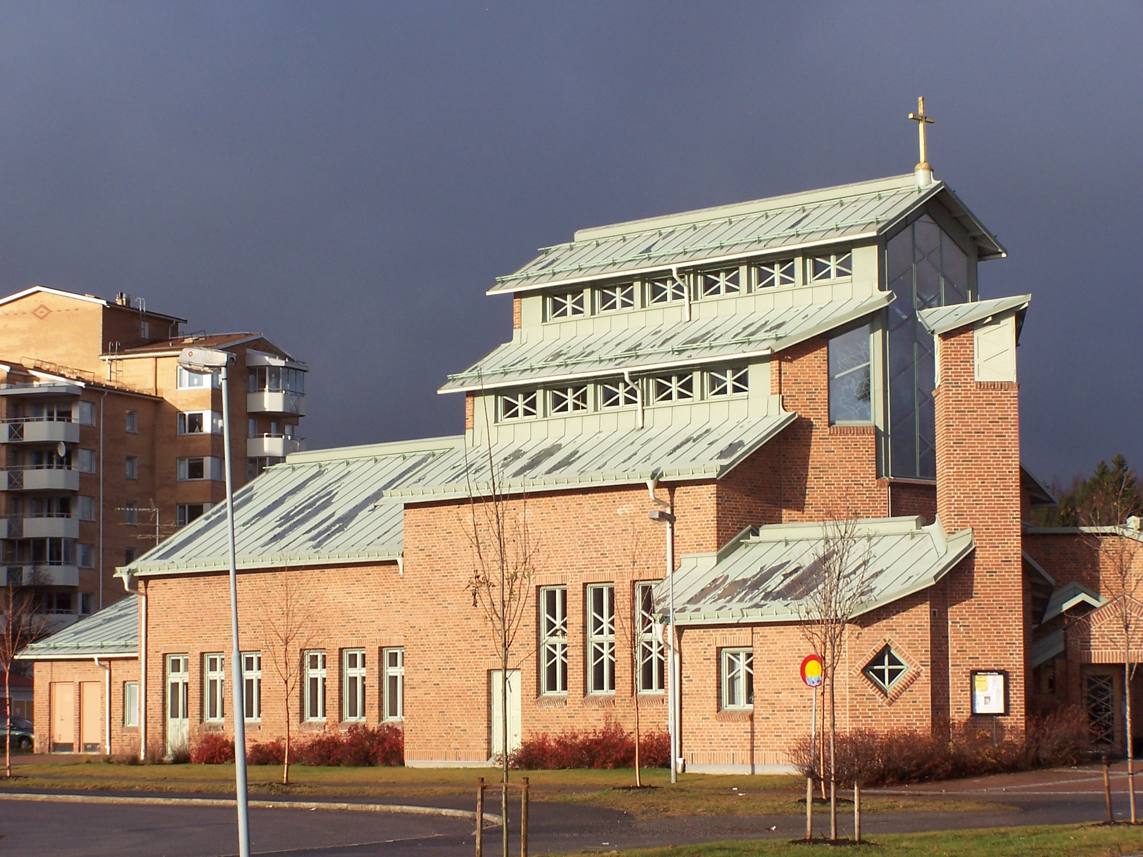 Granloholm church in Sundsvall, Sweden